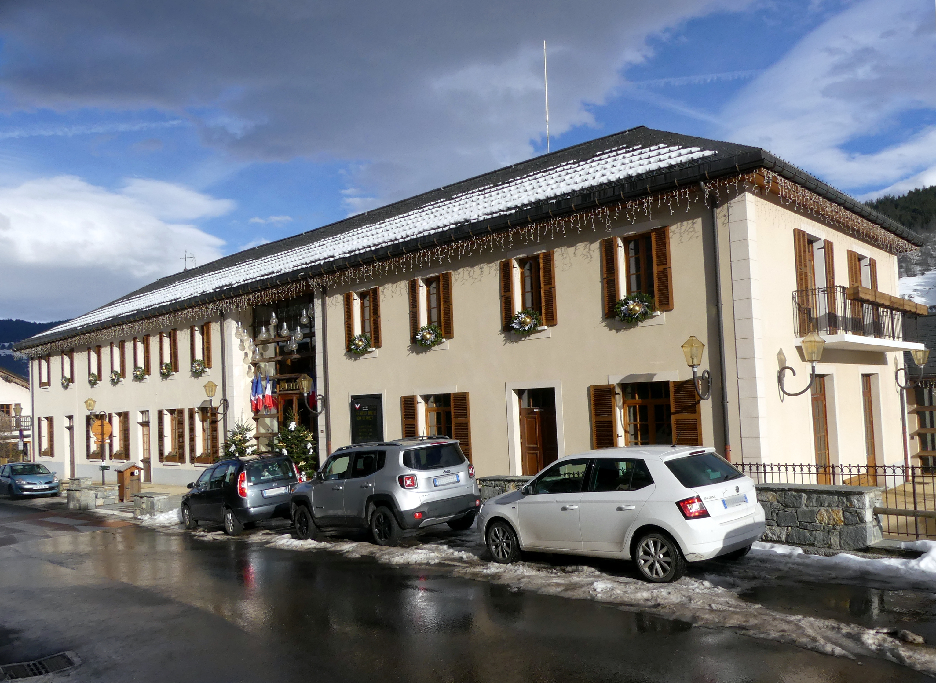 Sight of Les Allues town hall, in Savoie, France.